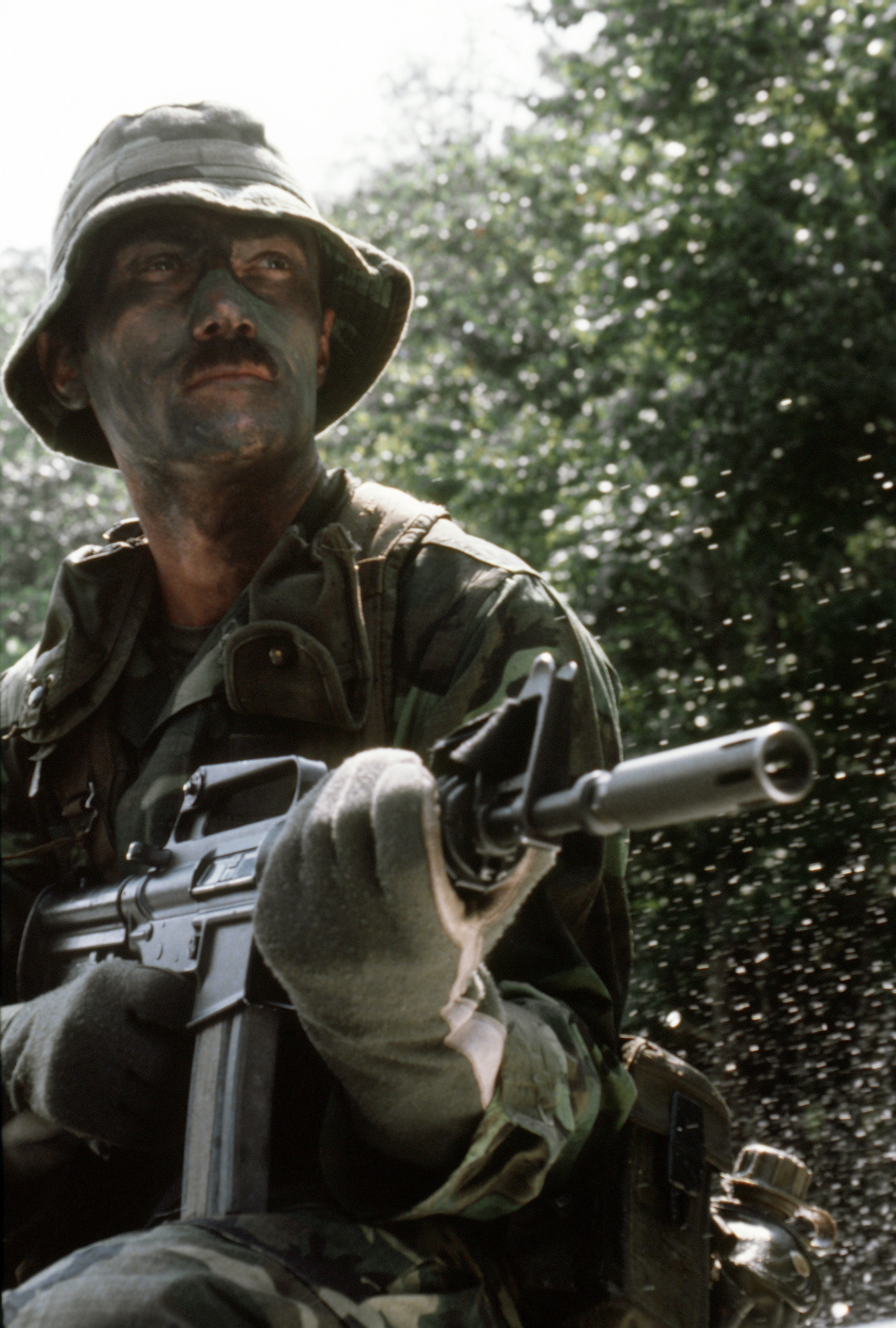 One of combat control team members, armed with a GAU-5 assault rifles, maneuvers down a river by a boat during training. The team members are from the 1st Special Operations Wing. Location: Hurlburt Field, Florida